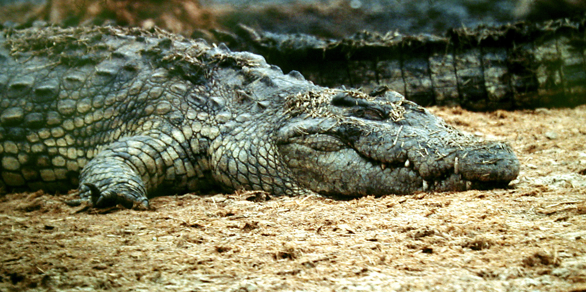 Crocodiles of the Serengeti sleeping.